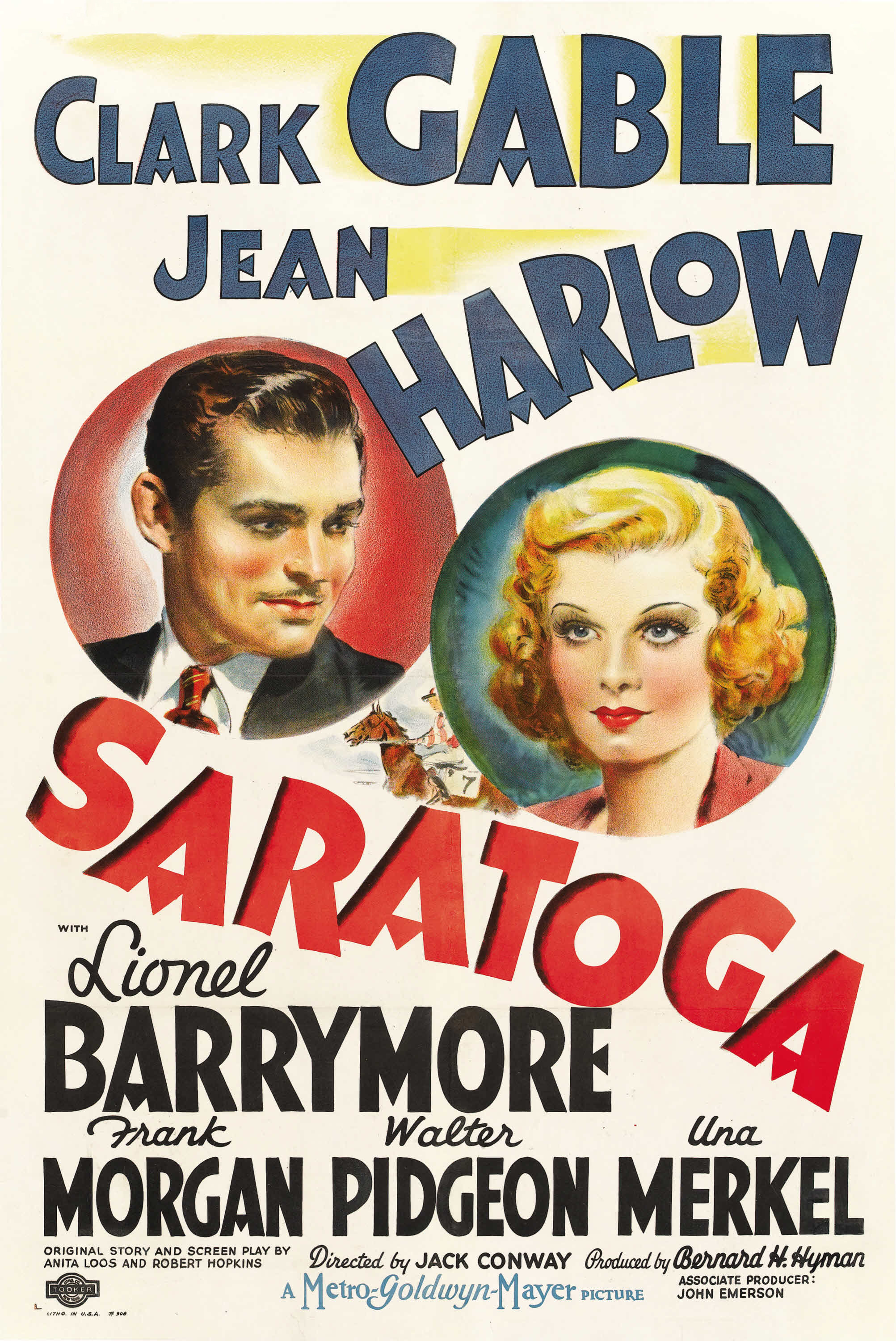 Poster for the American film Saratoga (1937). This was actress Jean Harlow's last film. She died before its completion and it was finished by using a series of stand ins, and doubles as well as the editing of some scenes because of the absence of Jean Harlow.